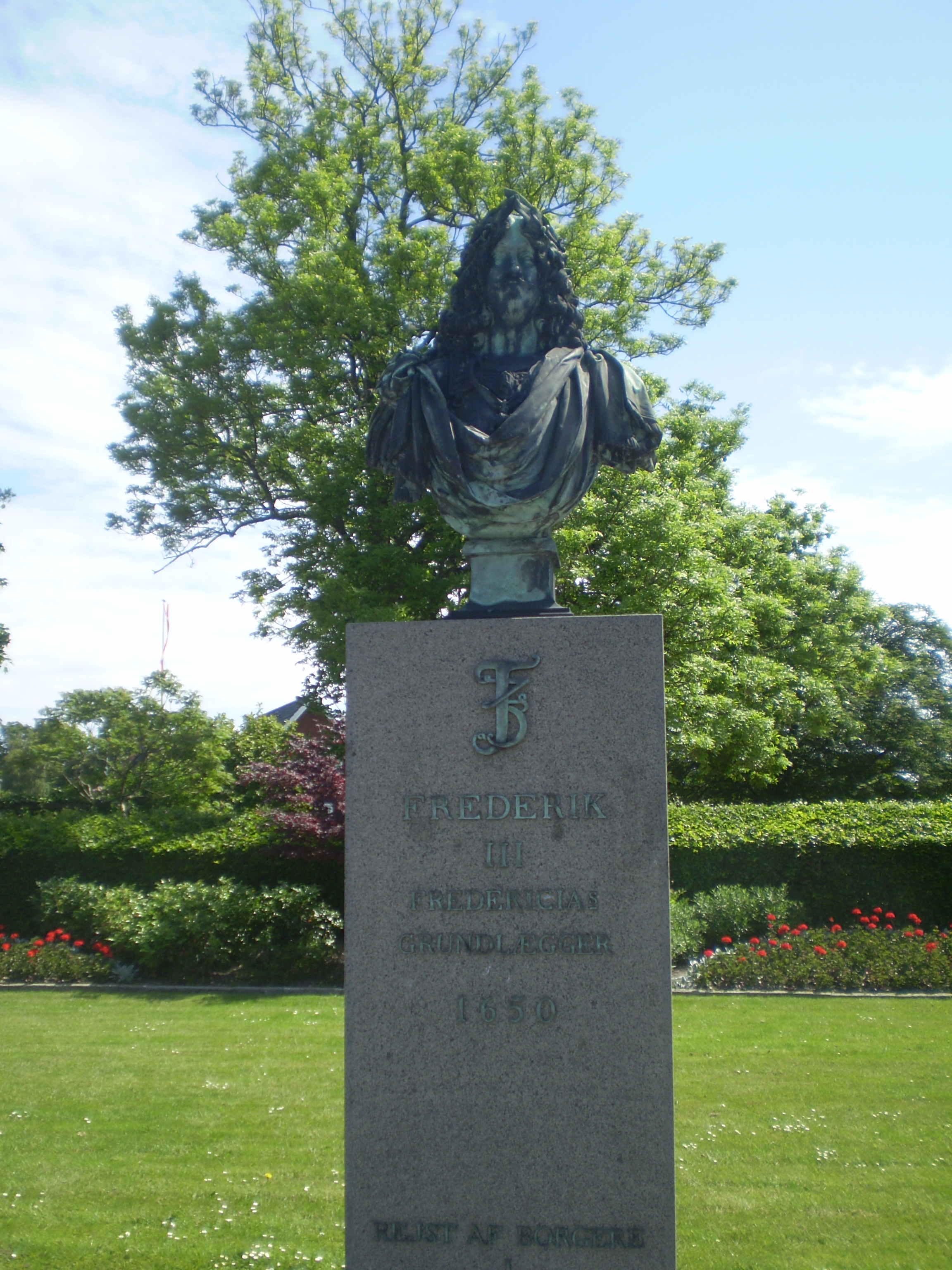 A monument located outside the main gate of Fredericia, commemorating King Frederick III, the founder of Fredericia (June 2006).